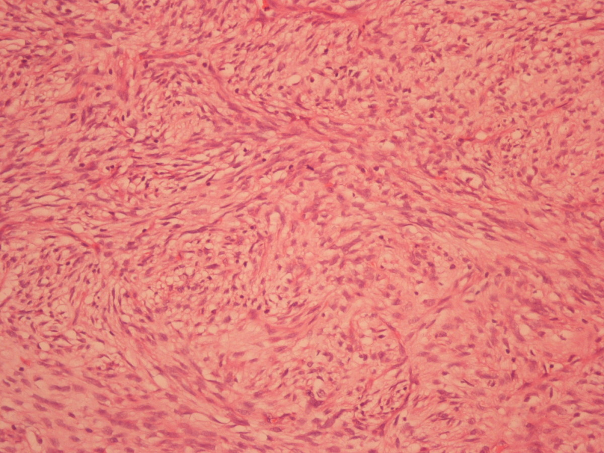 87 year old man with a liposarcoma. Growth of well differentiated liposarcoma (x 100) hematoxylin and eosin staining.